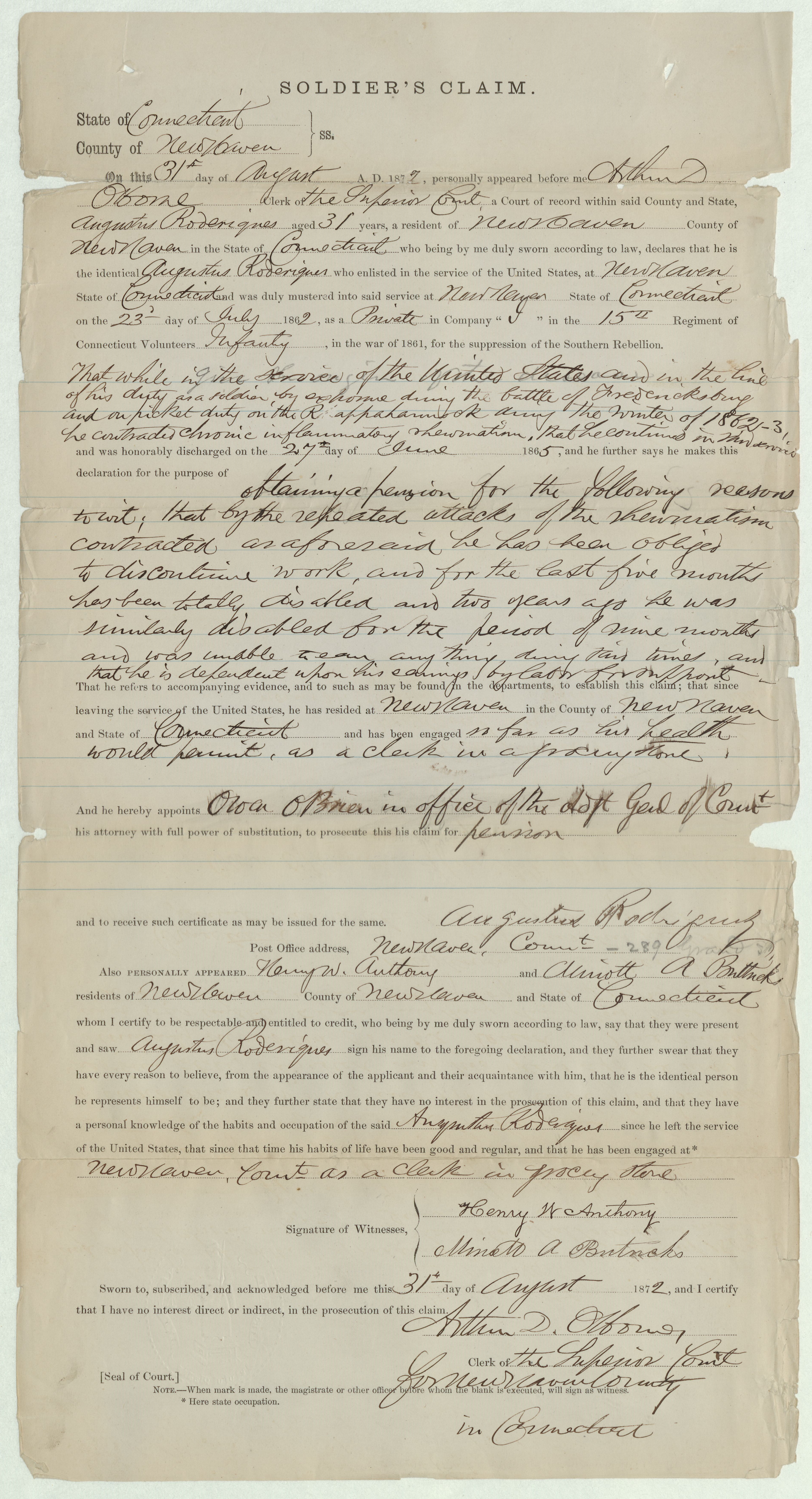 This pension claim made by Lt. Augustus Rodriguez on the 31 of August 1877 will be included in the subjects article